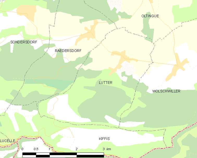 Map of French municipality